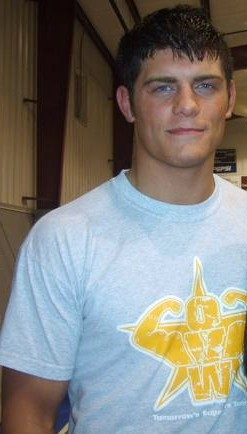 Cody Rhodes at OVW in Louisville, Kentucky in January 2007.